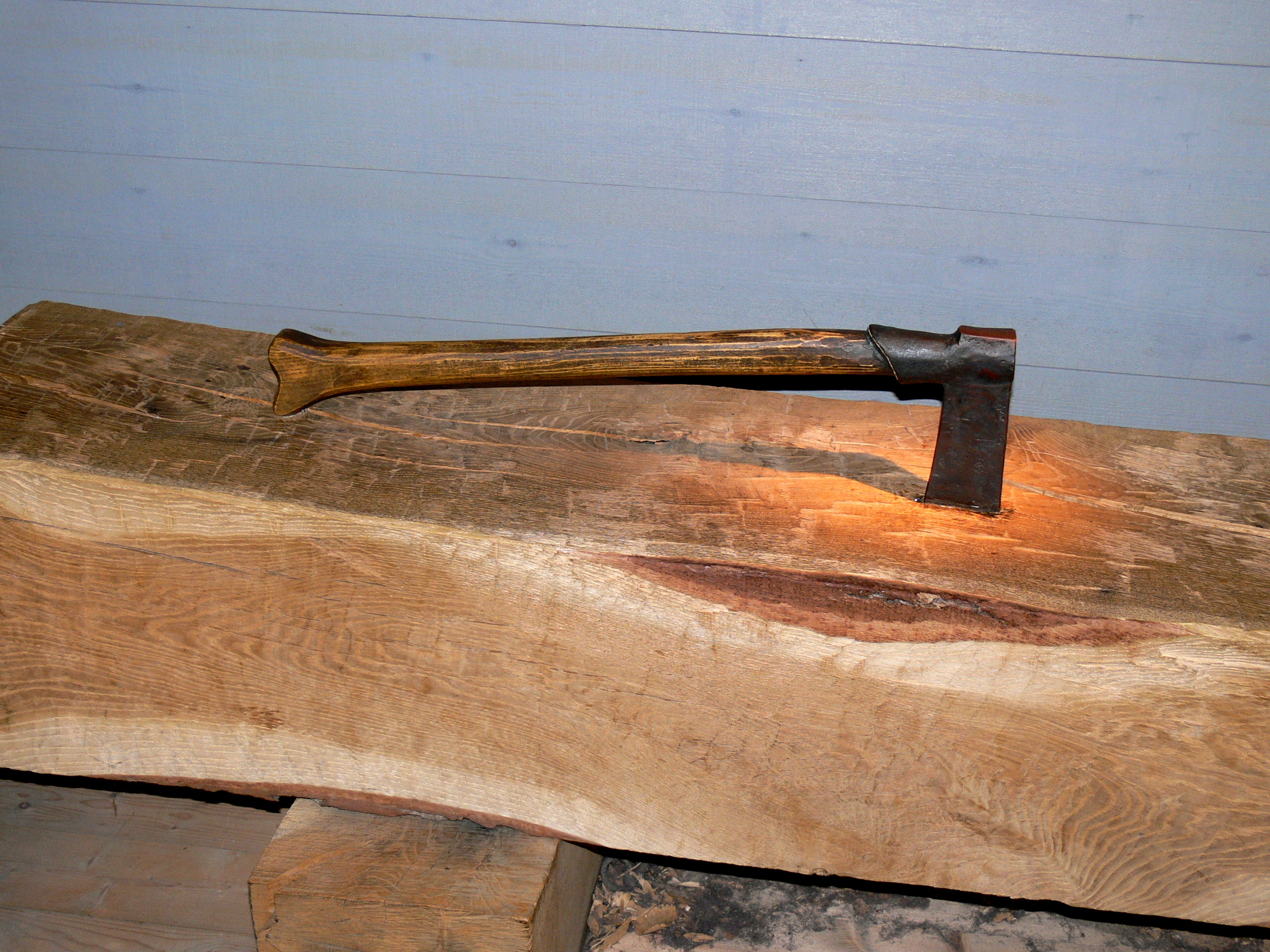 Vasa ship ( 1627 ). Building a ship: Tools of a carpenter.